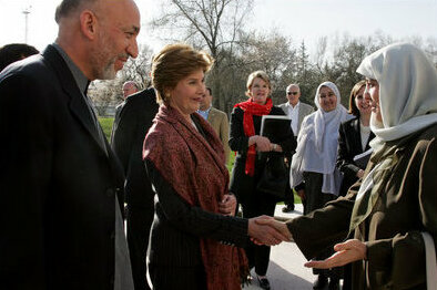 Afghan President Hamid Karzai introduces his wife, Dr. Karzai, to Laura Bush outside the presidential residence in Kabul, Afghanistan, Wednesday, March 30, 2005.